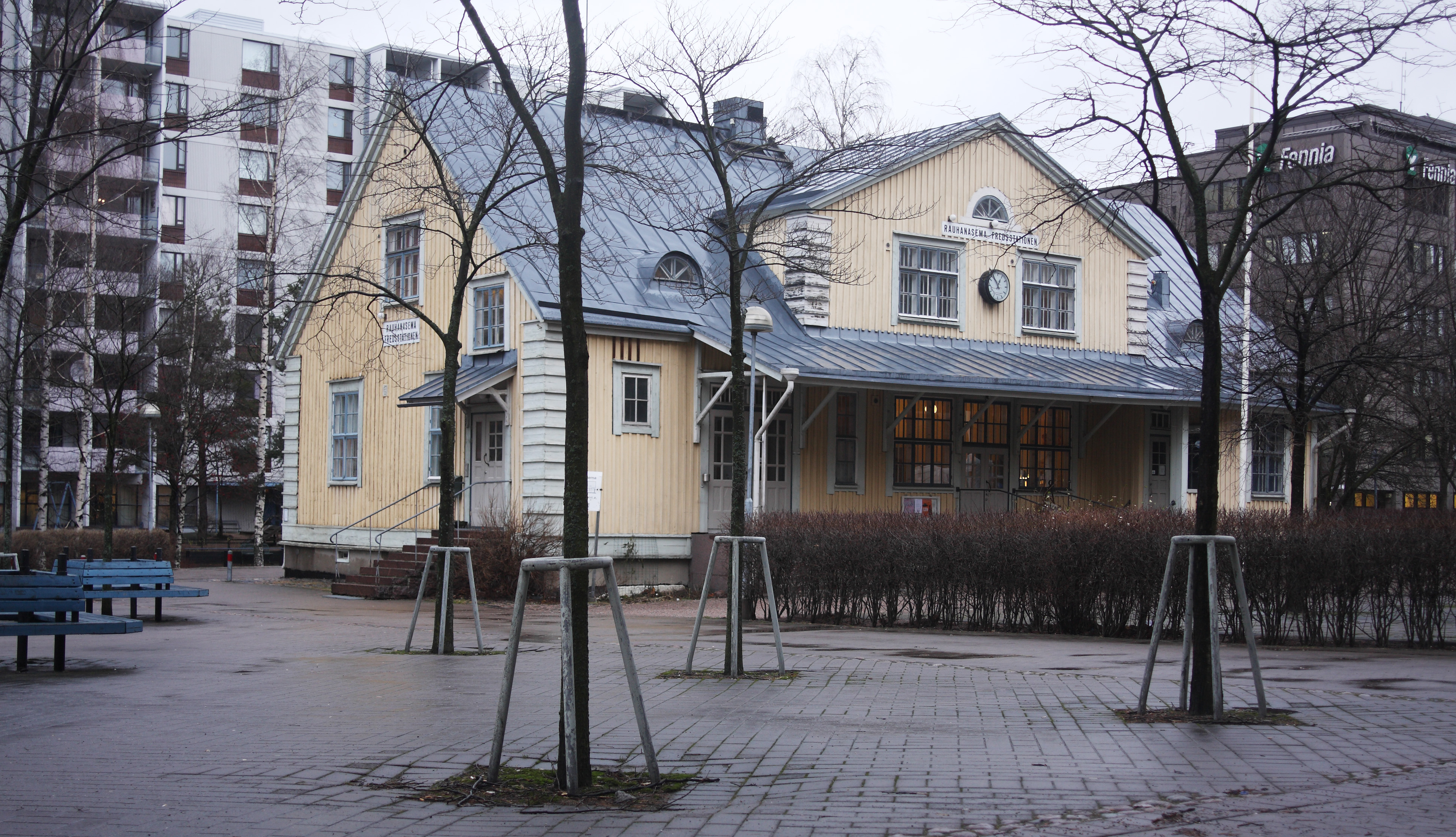 Rauhanasema at Eastern Pasila, Helsinki